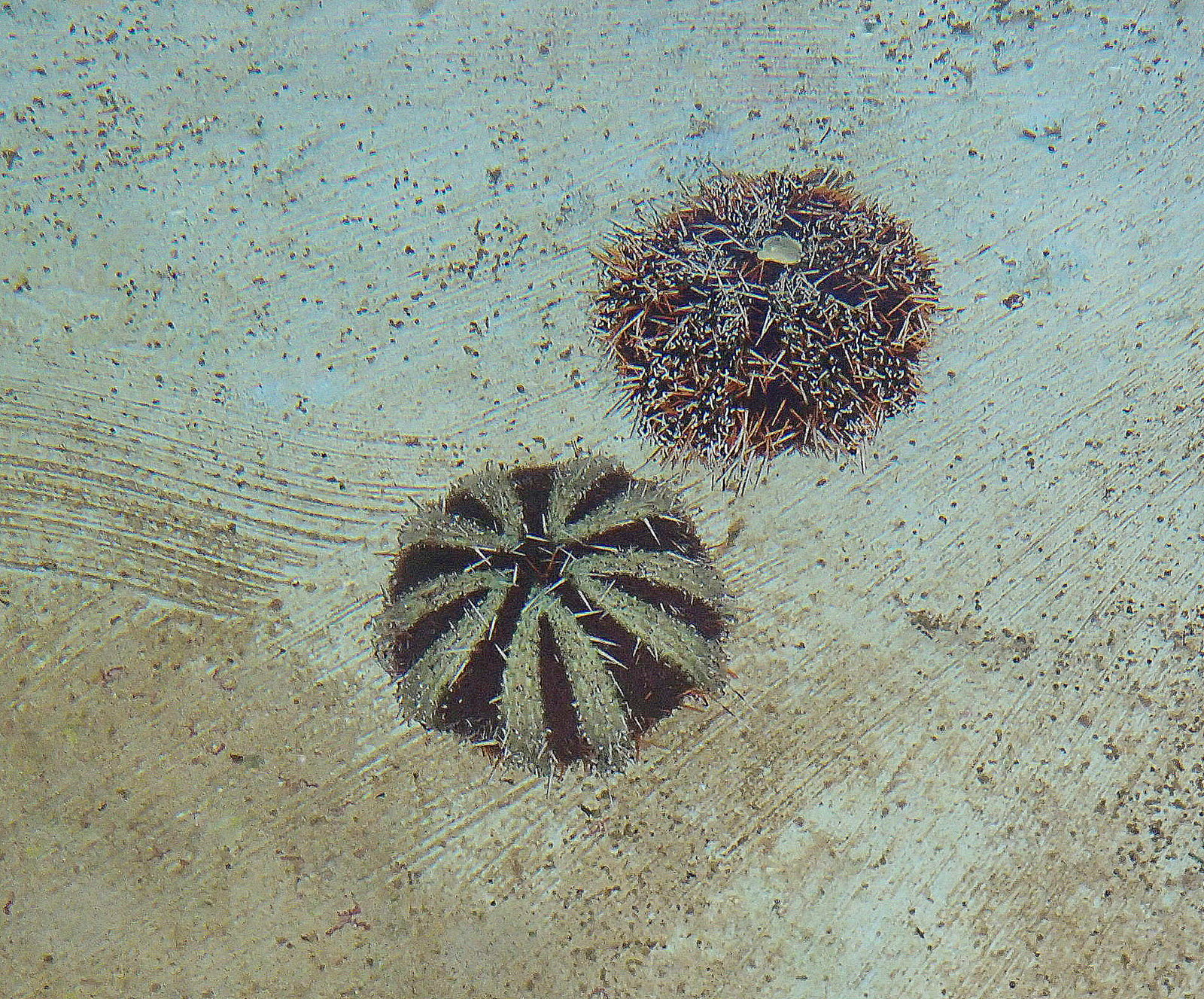 Sea urchins in Vietnam